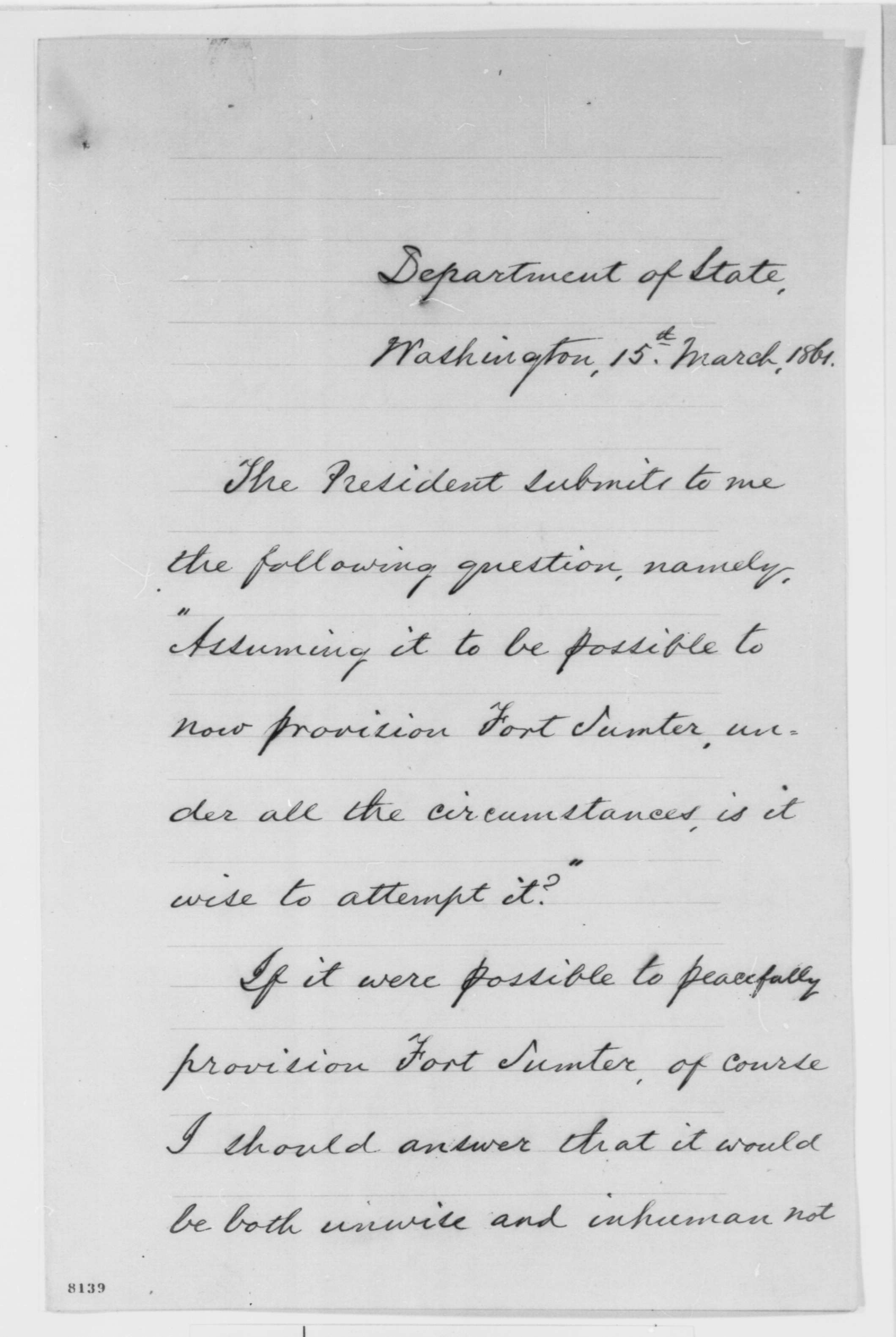 Photograph of letter from William H. Seward at the United States Department of State to President Abraham Lincoln concerning the advisability of reprovisioning Fort Sumter in the harbor of Charleston, South Carolina. The Abraham Lincoln Papers, General Correspondence, The Library of Congress, Washington, D. C. [1]